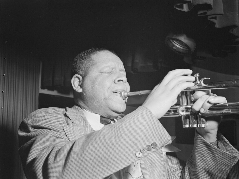 Portrait of Henry Allen, Onyx, New York, N.Y., ca. May 1946